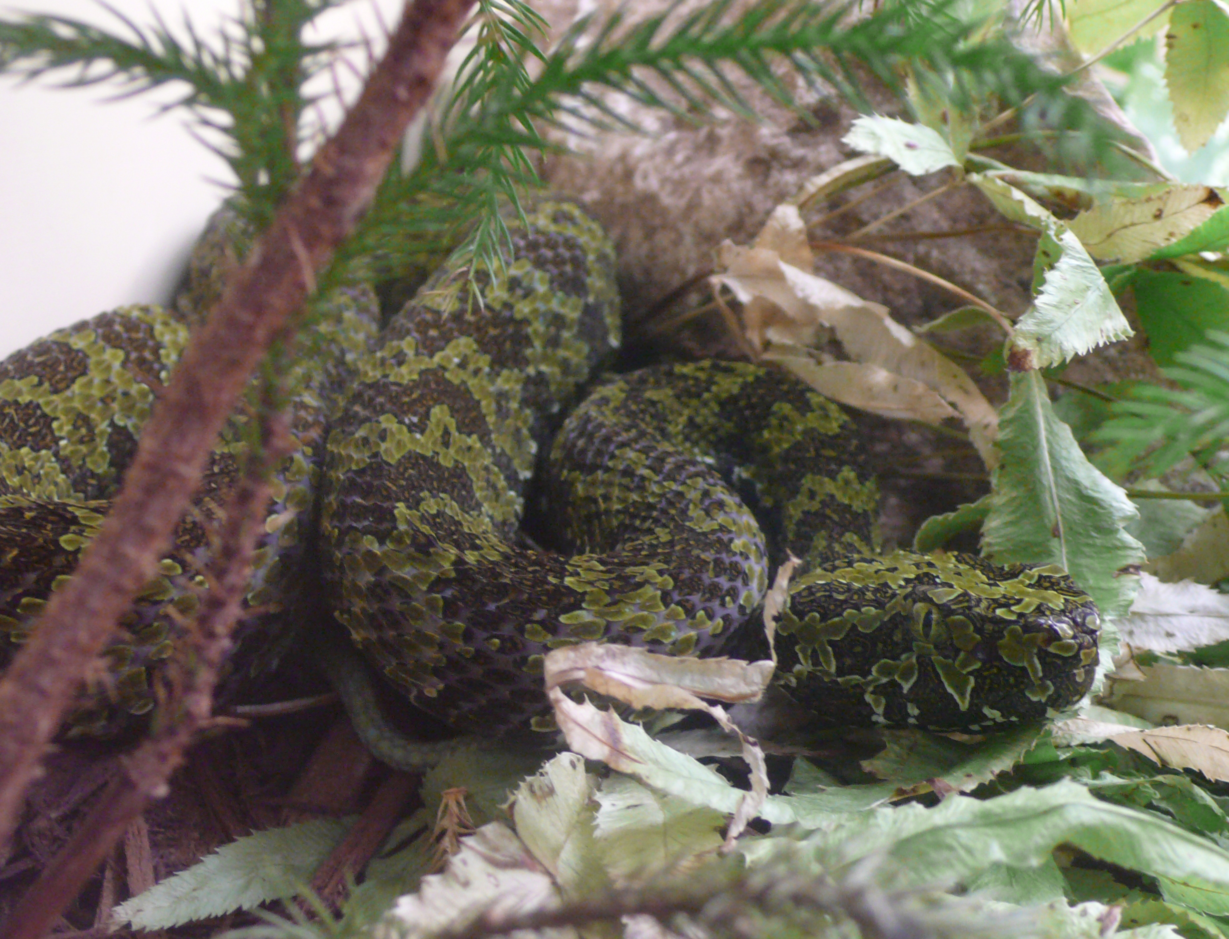 Mountain Mang Pitviper (Trimeresurus mangshanensis)